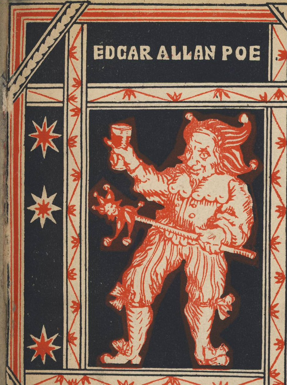 Cover of Czech translation of Poe's stories Skokan a jiné novely, published in 1919.